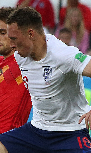 Phil Jones playing for England against Belgium at the 2018 FIFA World Cup